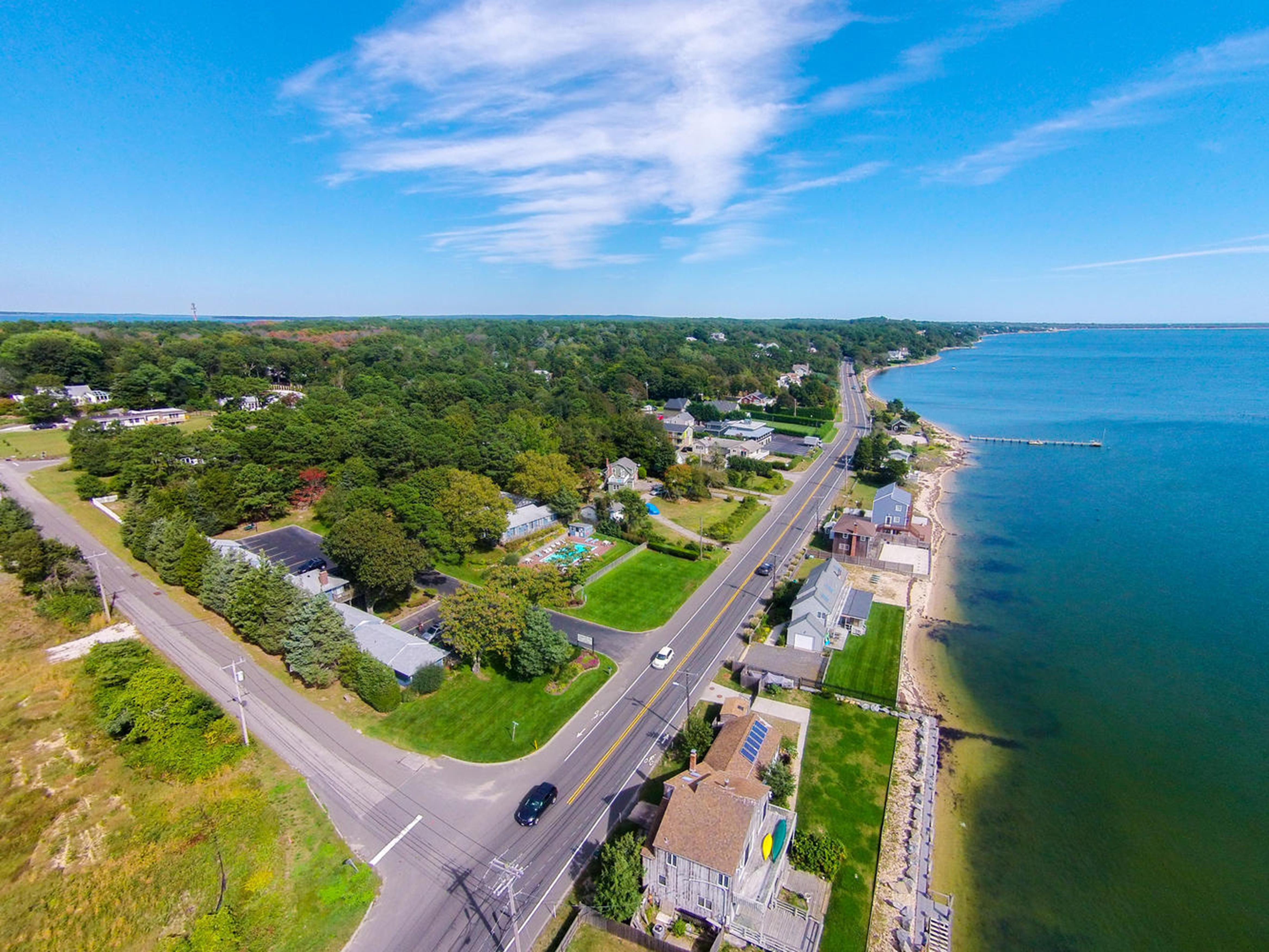 Aerial view of Shinnecock Bay, the Ocean View Terrace Inn, and Edgwater Grill.